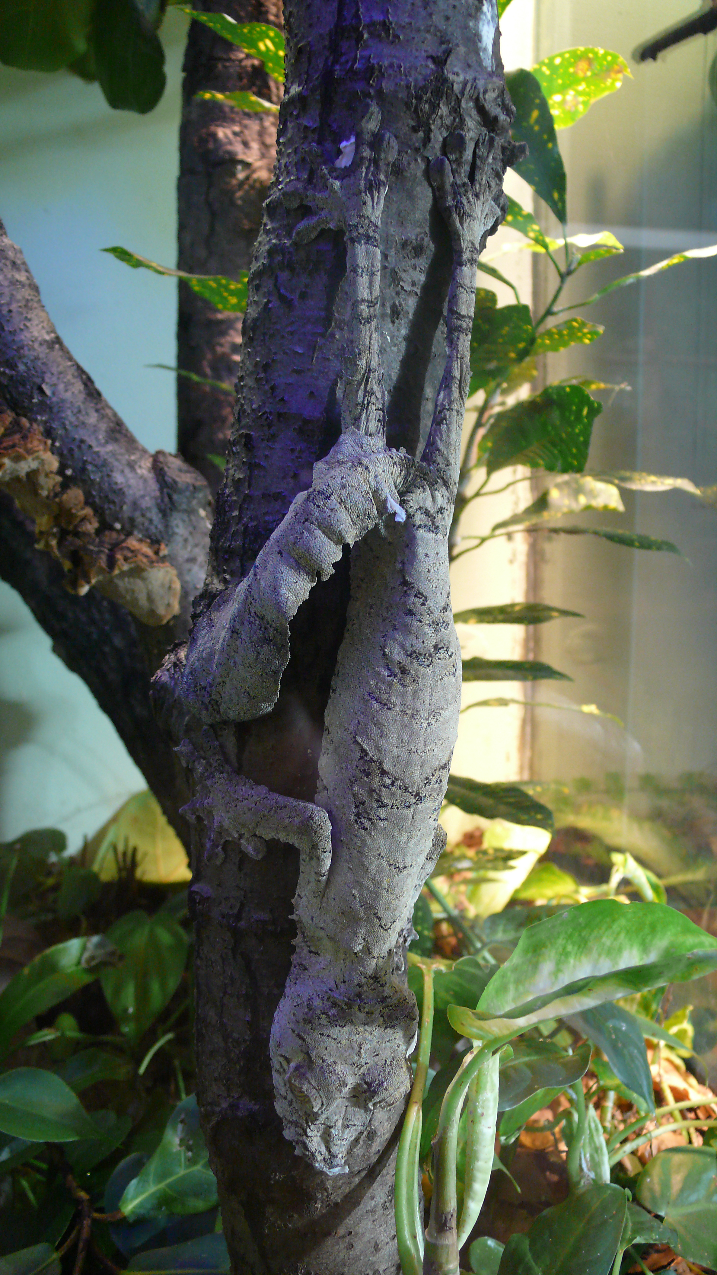 Giant leaf-tail gecko Uroplatus fimbriatus